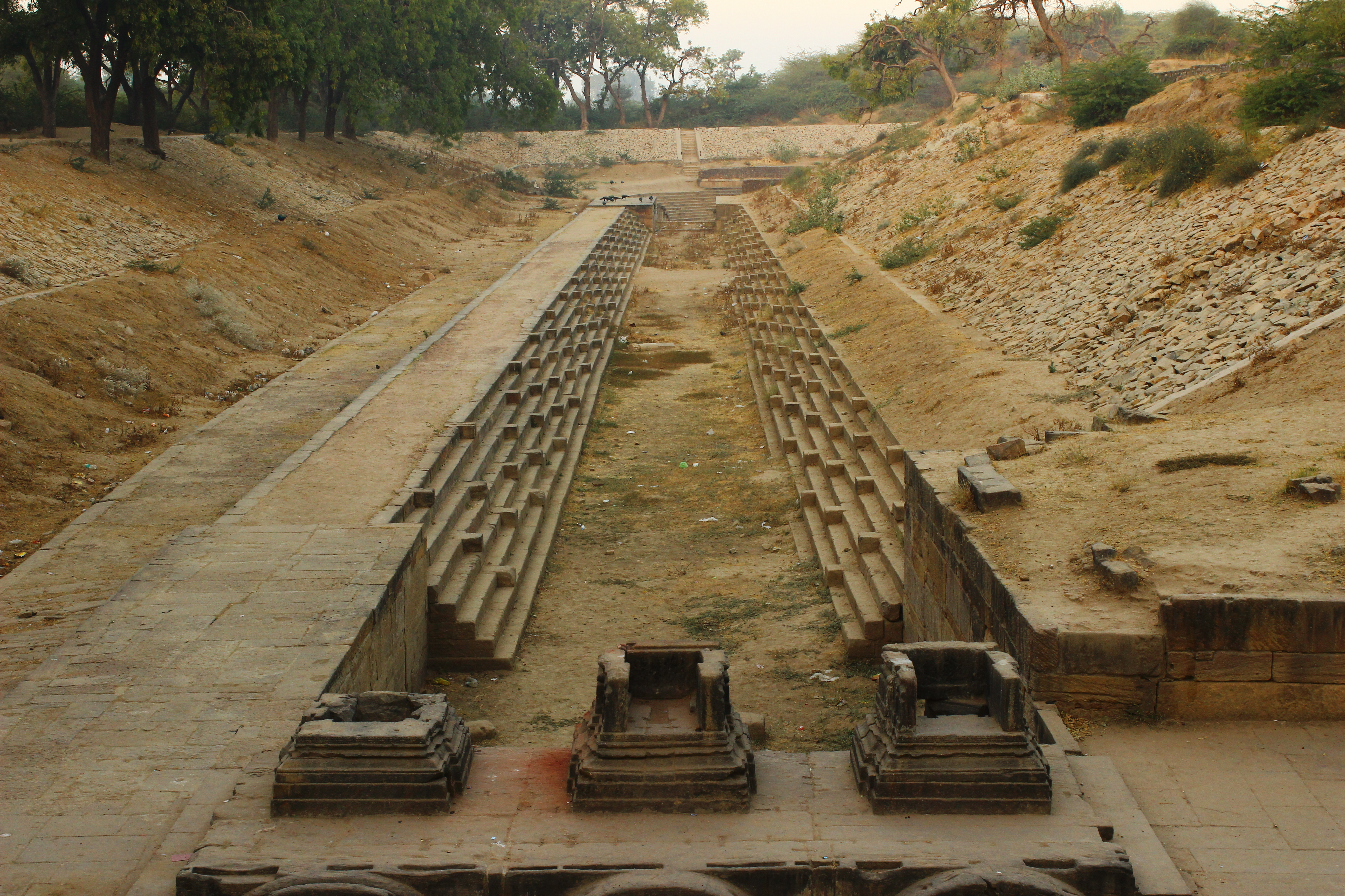 Structure showing the canal of Sahasraling Talav